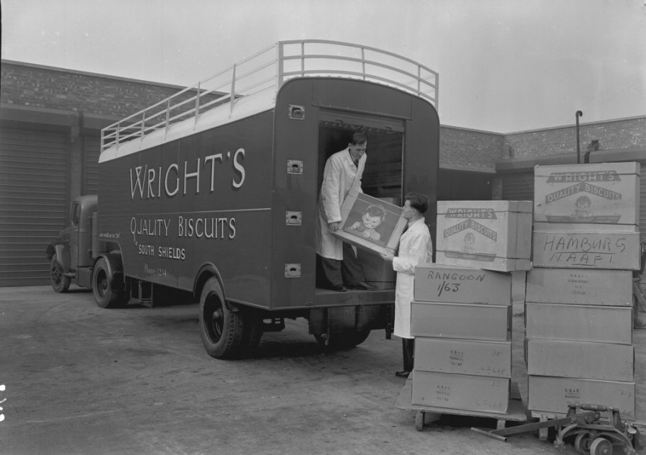 Wright's Biscuits being transported to and from the factory. Photograph taken by Turners Photographic of Newcastle. Wright’s Biscuits was a well known company in South Shields, South Tyneside. Set up as a maker of biscuits, they started out by supplying their stock to ships in 1790, but after a fall in demand, Wright's turned to making more up-market biscuits. Wright's Biscuit factory closed in 1973. Turner’s was established in Newcastle upon Tyne in the early 1900s. It was originally a chemists shop but in 1938 become a photographic dealer. Turners went on to become a prominent photographic and video production company in the North East of England. They had 3 shops in Newcastle city centre, in Pink Lane, Blackett Street and Eldon Square. Turner’s photographic business closed in the 1990s. Ref: TWAS: DT.TUR/2/891/j (Copyright) We're happy for you to share this digital image within the spirit of The Commons. Please cite 'Tyne & Wear Archives & Museums' when reusing. Certain restrictions on high quality reproductions and commercial use of the original physical version apply though; if you're unsure please . To purchase a hi-res copy please quoting the title and reference number.